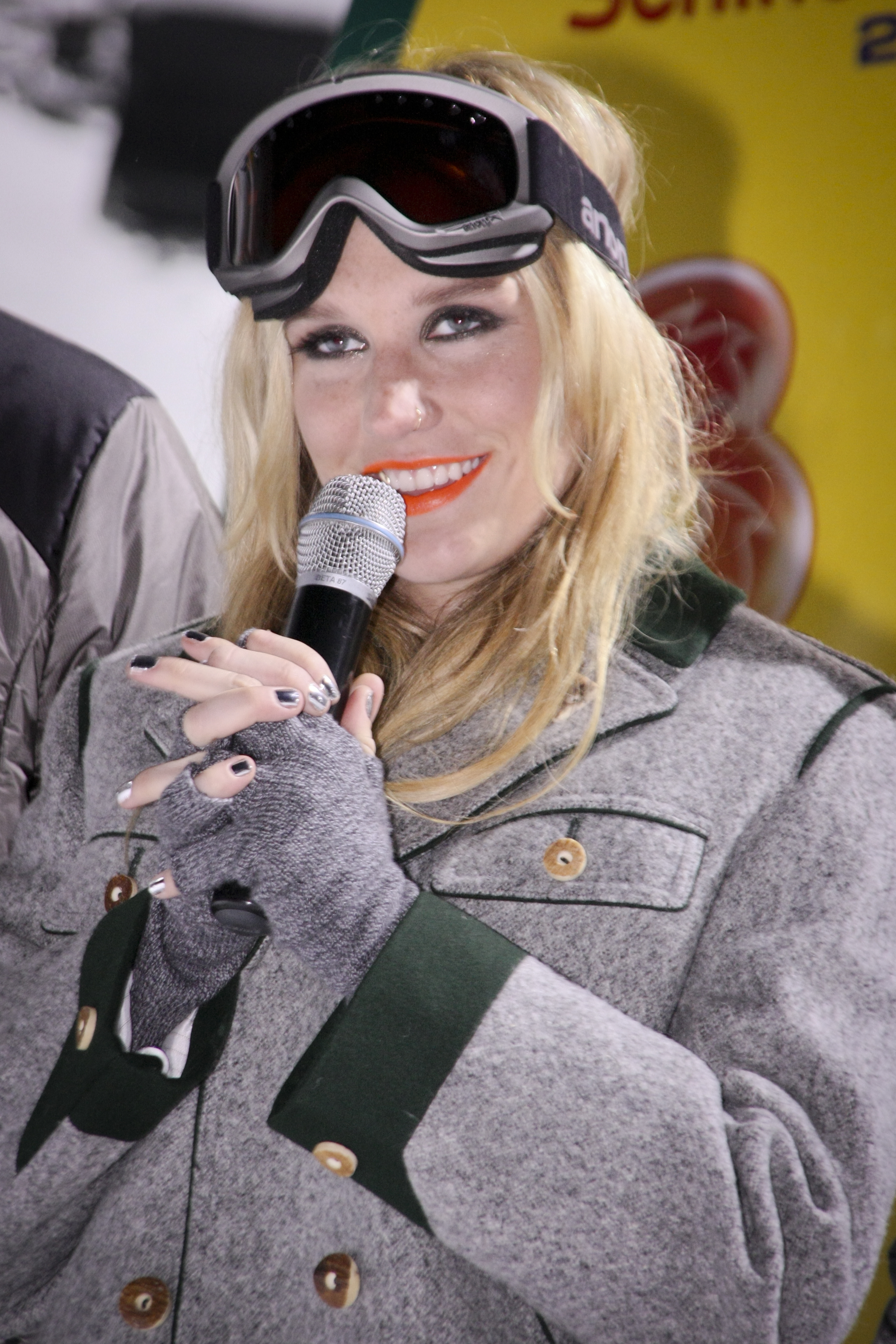 Ke$ha in Schladming, Austria